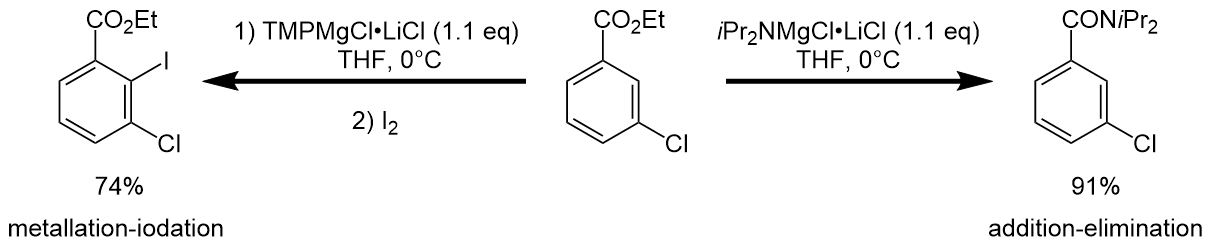 Example Turbo Hauser Base Rktn 3